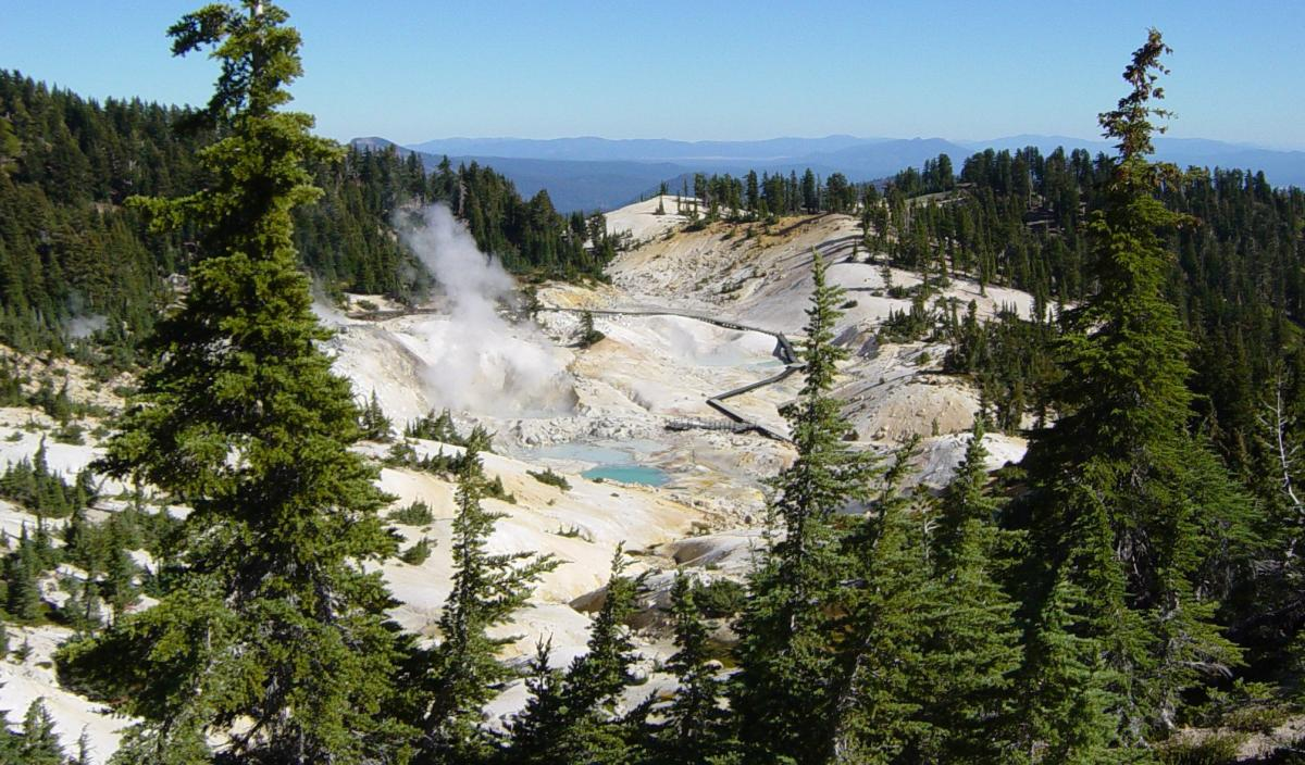 Photograph by Daniel Mayer. Taken in October 2003